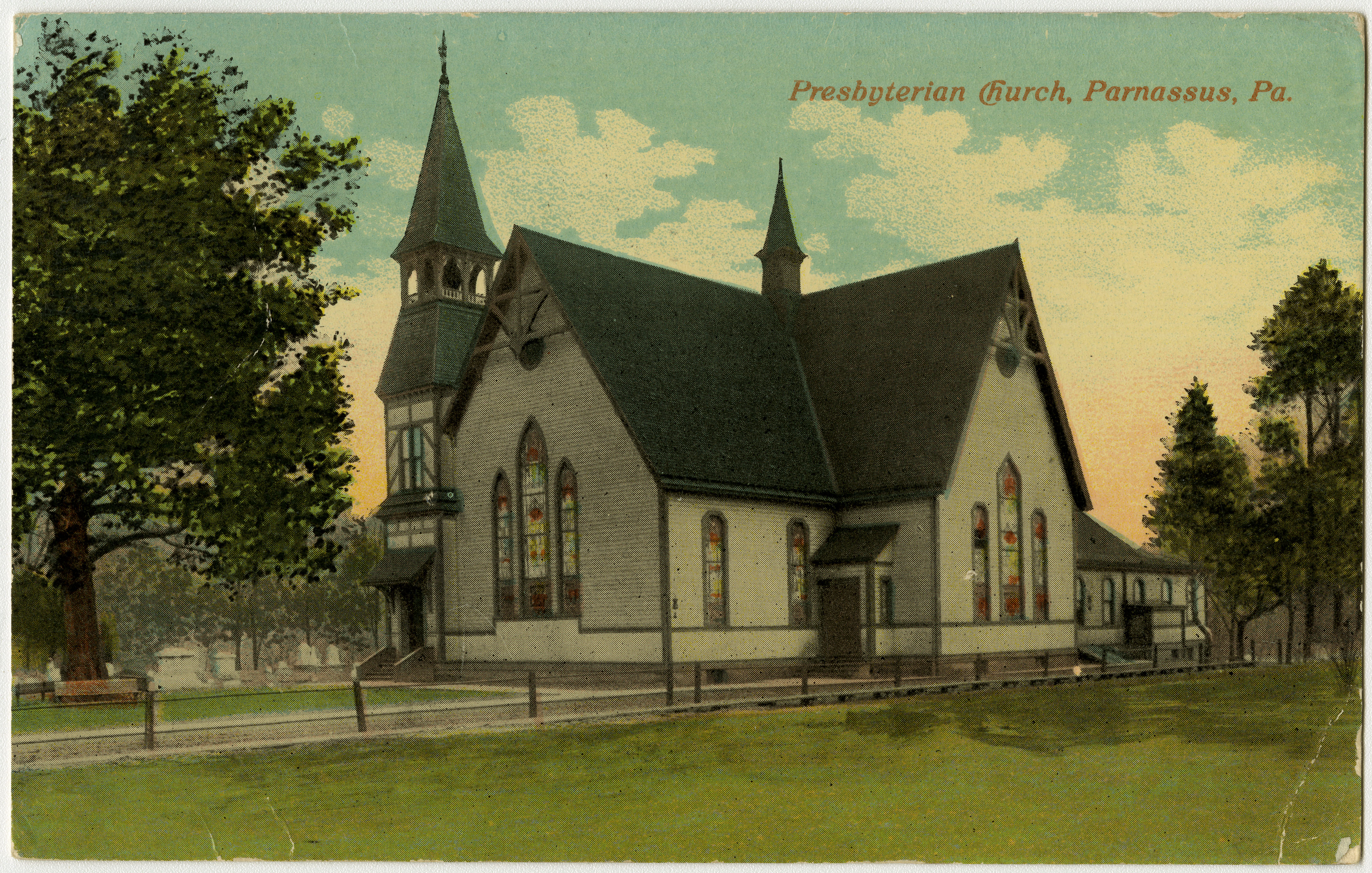 Presbyterian church in Parnassus, Pennsylvania from a pre-1923 postcard From RG 428, Postcard Collection, Presbyterian Historical Society, Philadelphia, Pennsylvania.